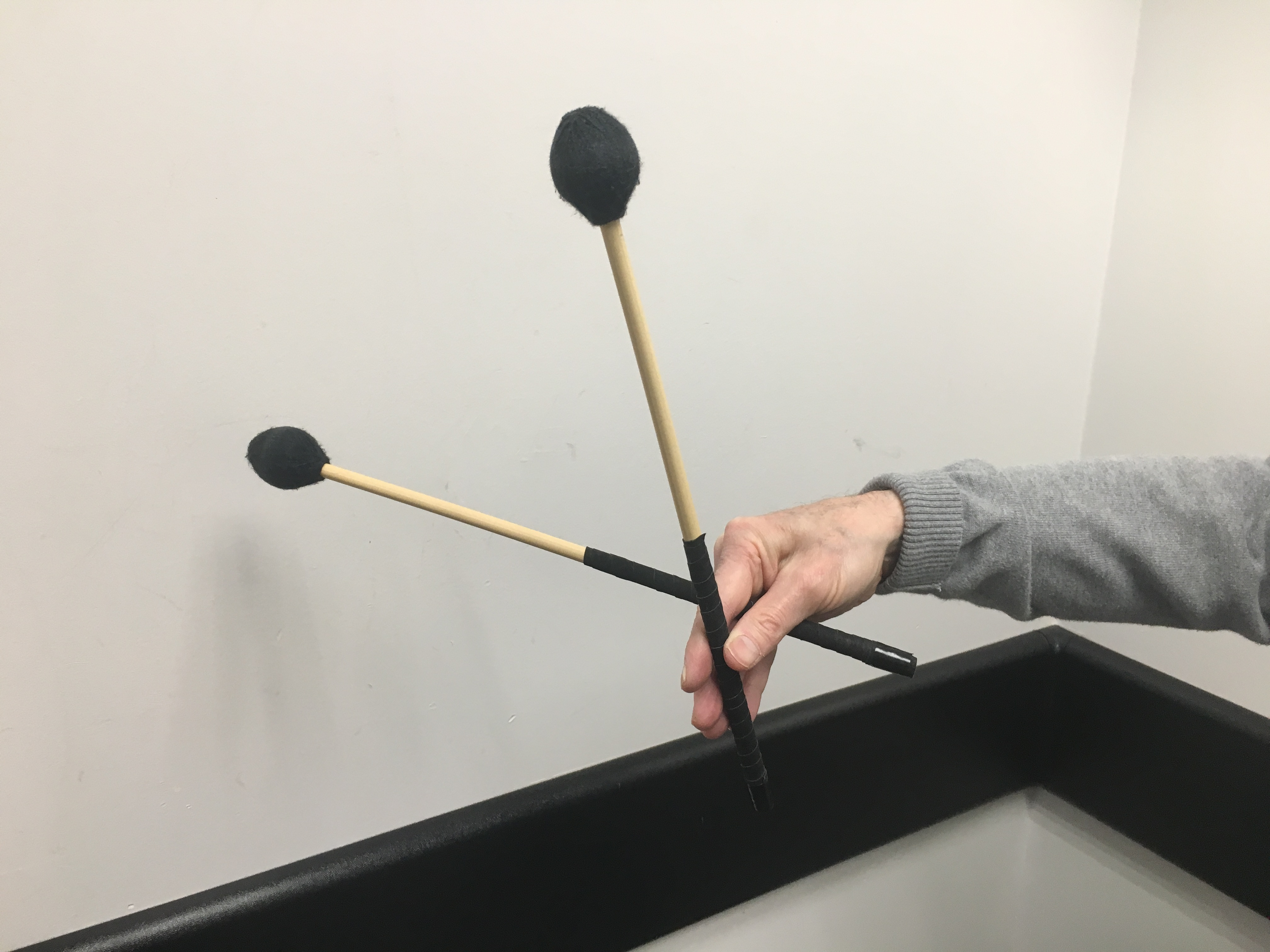 Small to Mid-Range, inside mallet stroke